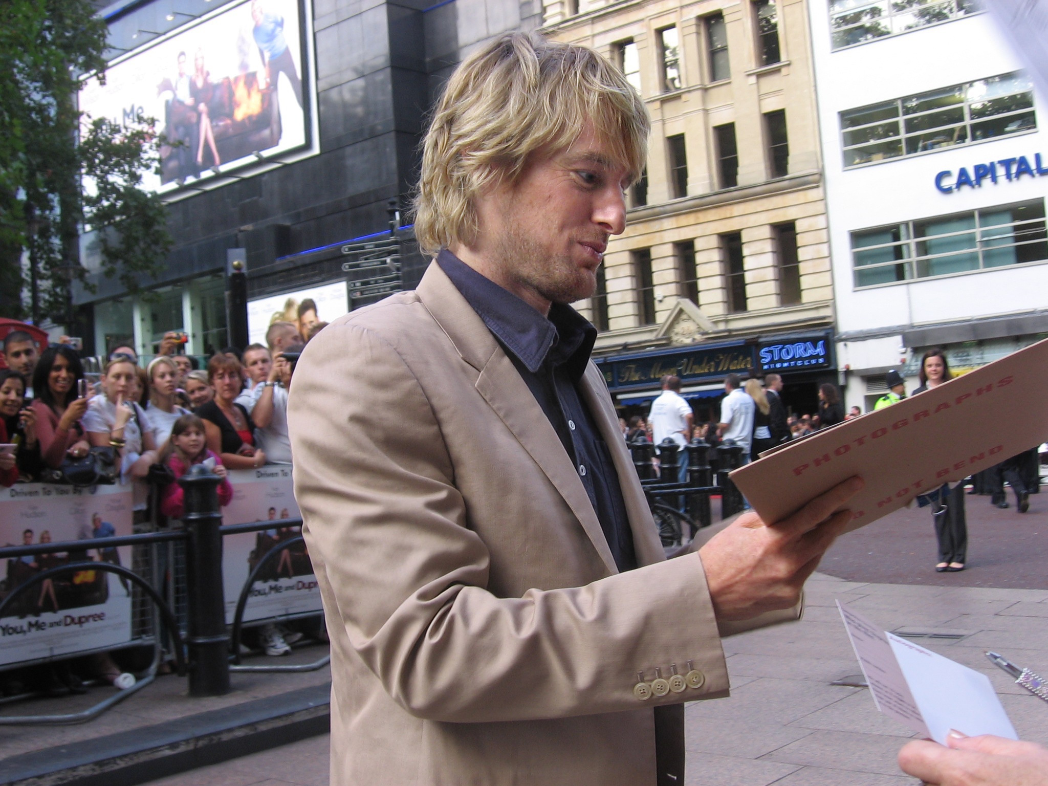 Owen wilson @ you, me and dupree premiere in London, summer 2006.